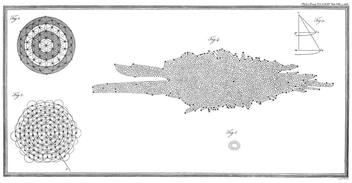 "Section of our sidereal system." Herschel, William. "On the Construction of the Heavens. By William Herschel, Esq. FRS." Philosophical Transactions of the Royal Society of London 75 (1785)